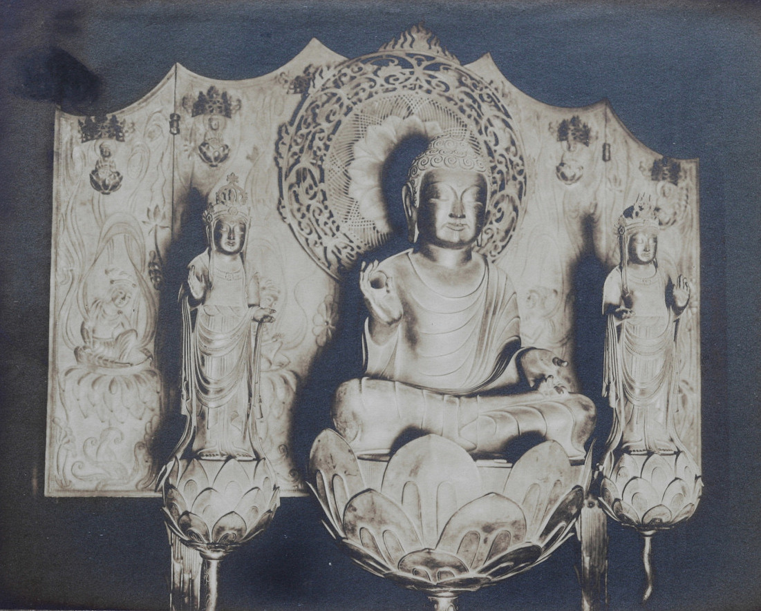 Amida Nyorai and two attendants in Interior Shirine Bronze, 33.3 cm (13.1 in) (Amida), 27.0 cm (10.6 in) (each attendant), early 8th century, Nara Period, Hōryū-ji, Ikaruga, Nara